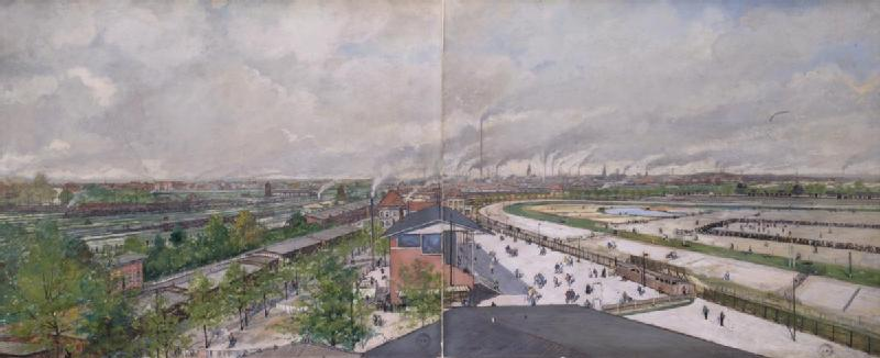 Ruhleben Prison Camp - Panoramic View image: A panoramic view of a prison camp that is housed within a horse racecourse. In the centre foreground is a stand that looks out onto the racecourse, which is on the right. The small figures of prisoners can be seen throughout the right half of the composition. A series of smoking chimneys are visible on the horizon.